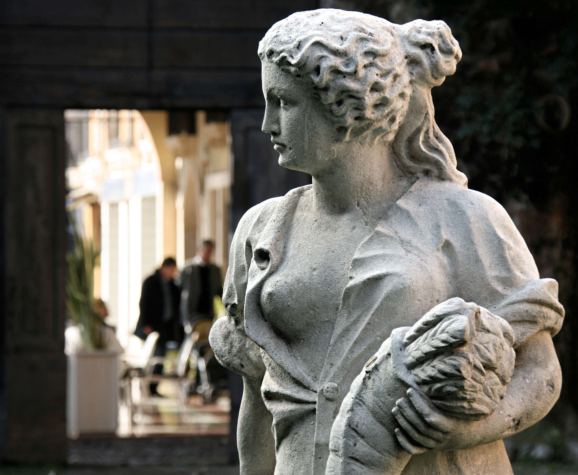 Vicenza, Olympic Theather's Garden.